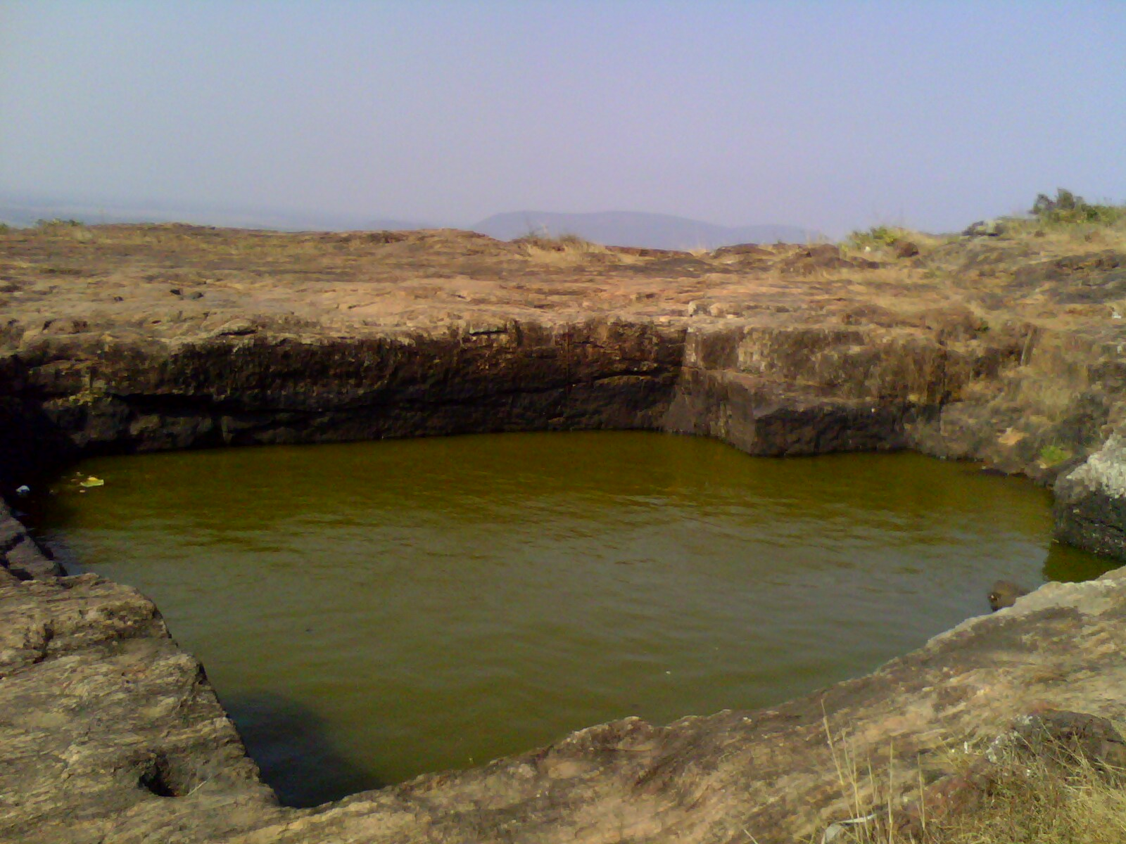 medium sized rock cut cistern at pavuralla konda at bheemunipatnam